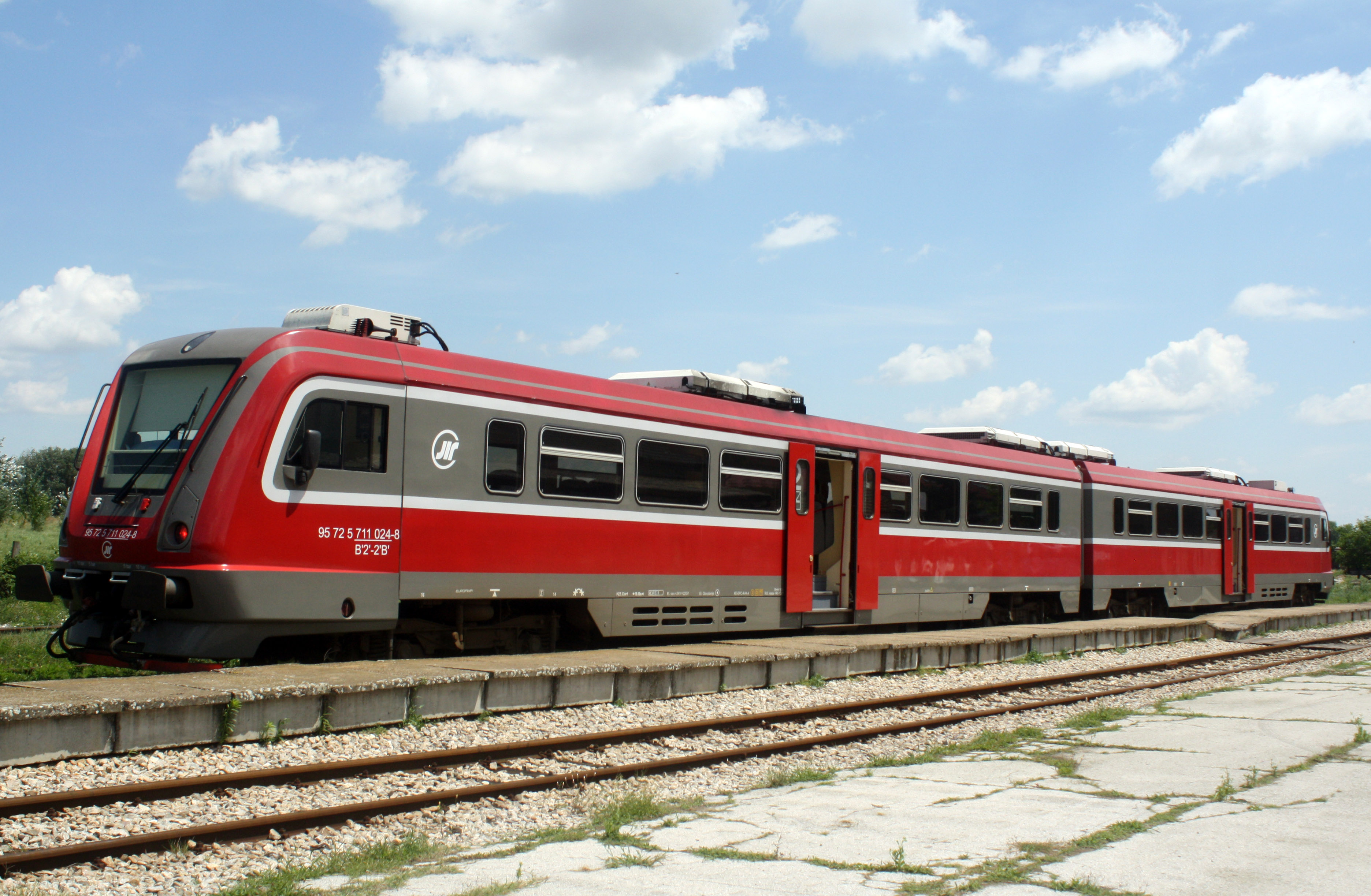 Serbian Railways class 711 DMU on Ruma-Šabac line at Šabac train station.